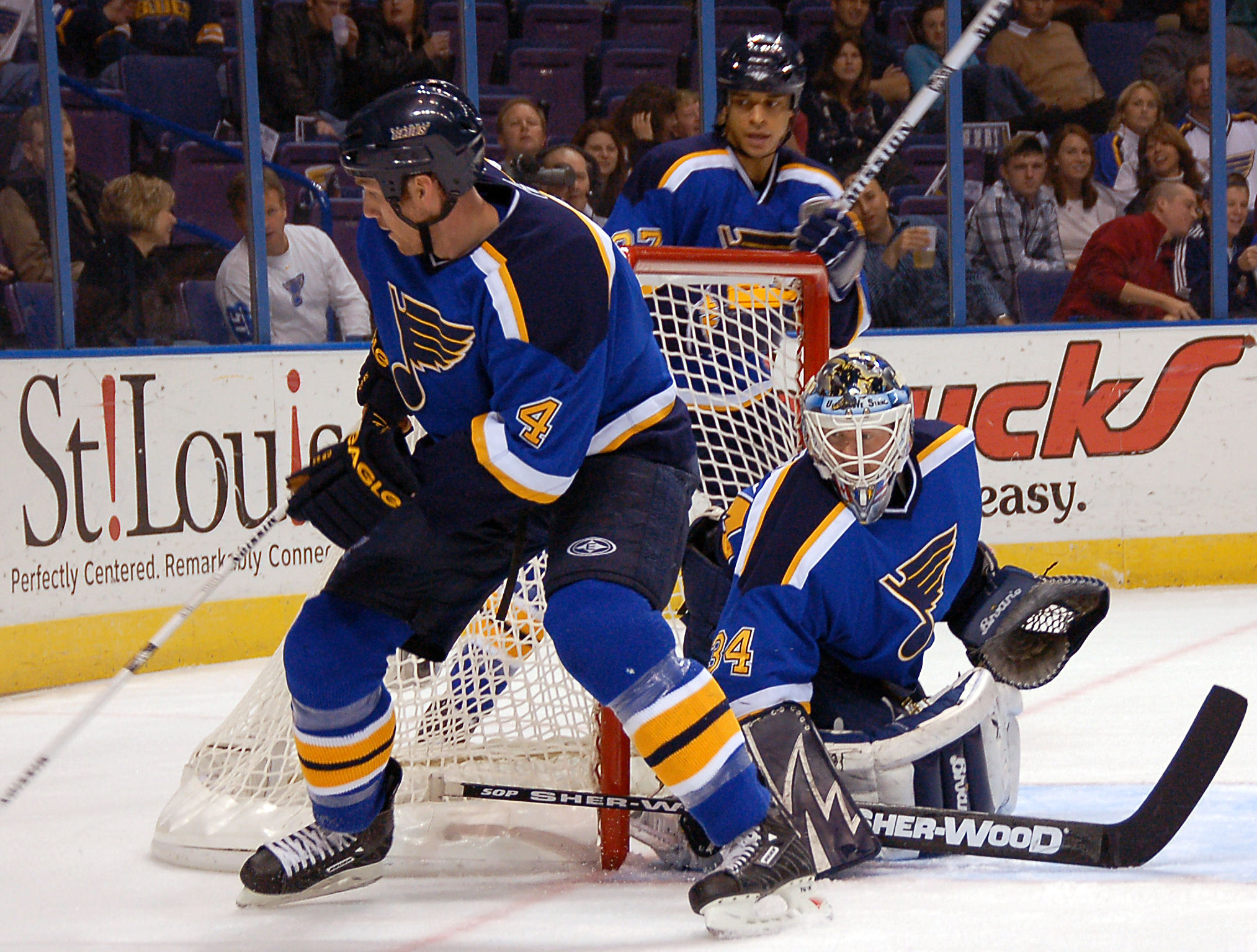 Eric Brewer with the St. Louis Blues versus the San Jose Sharks